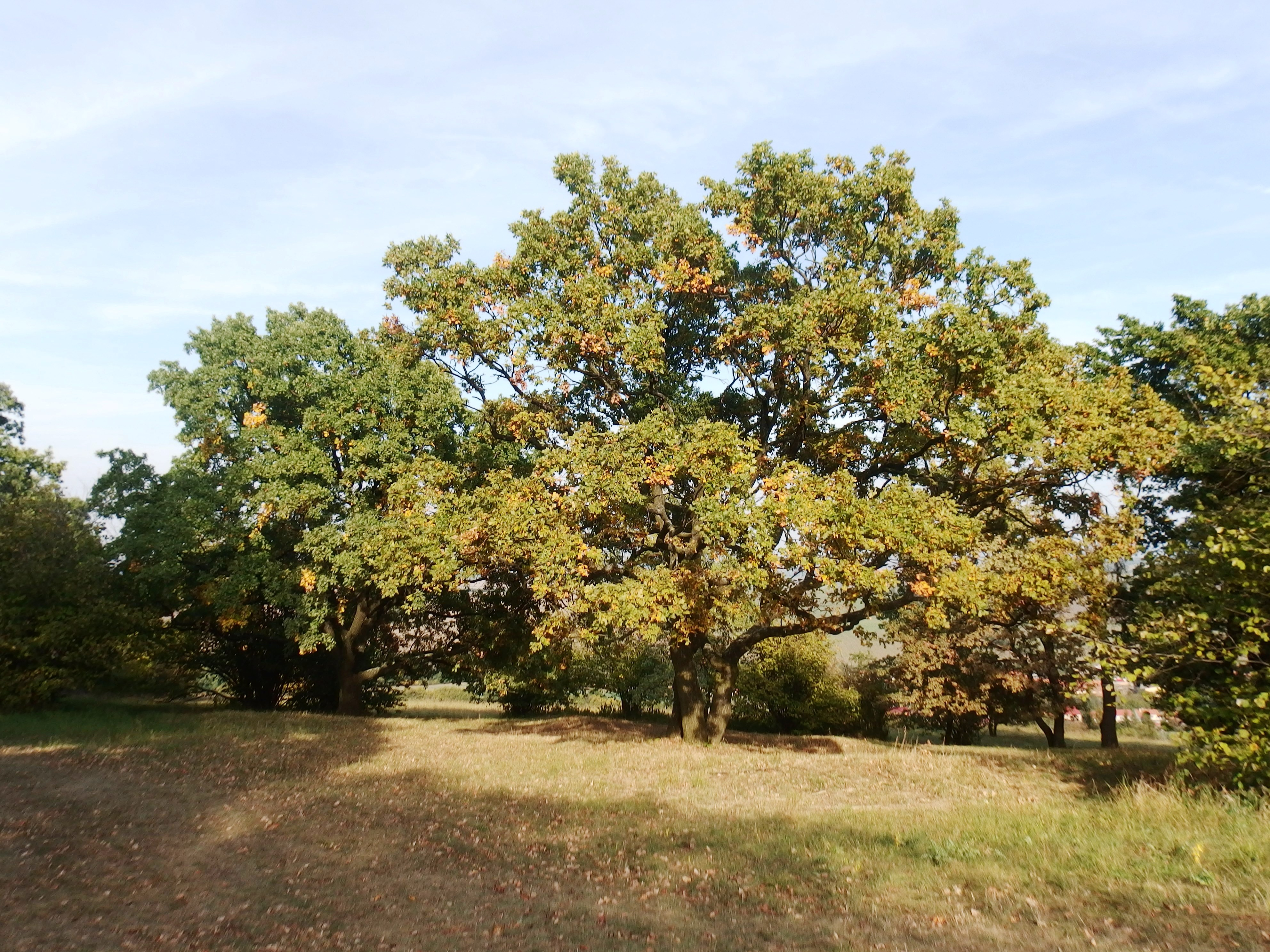 Strážnice, Hodonín District, Czech Republic. Natural monument Žerotín.